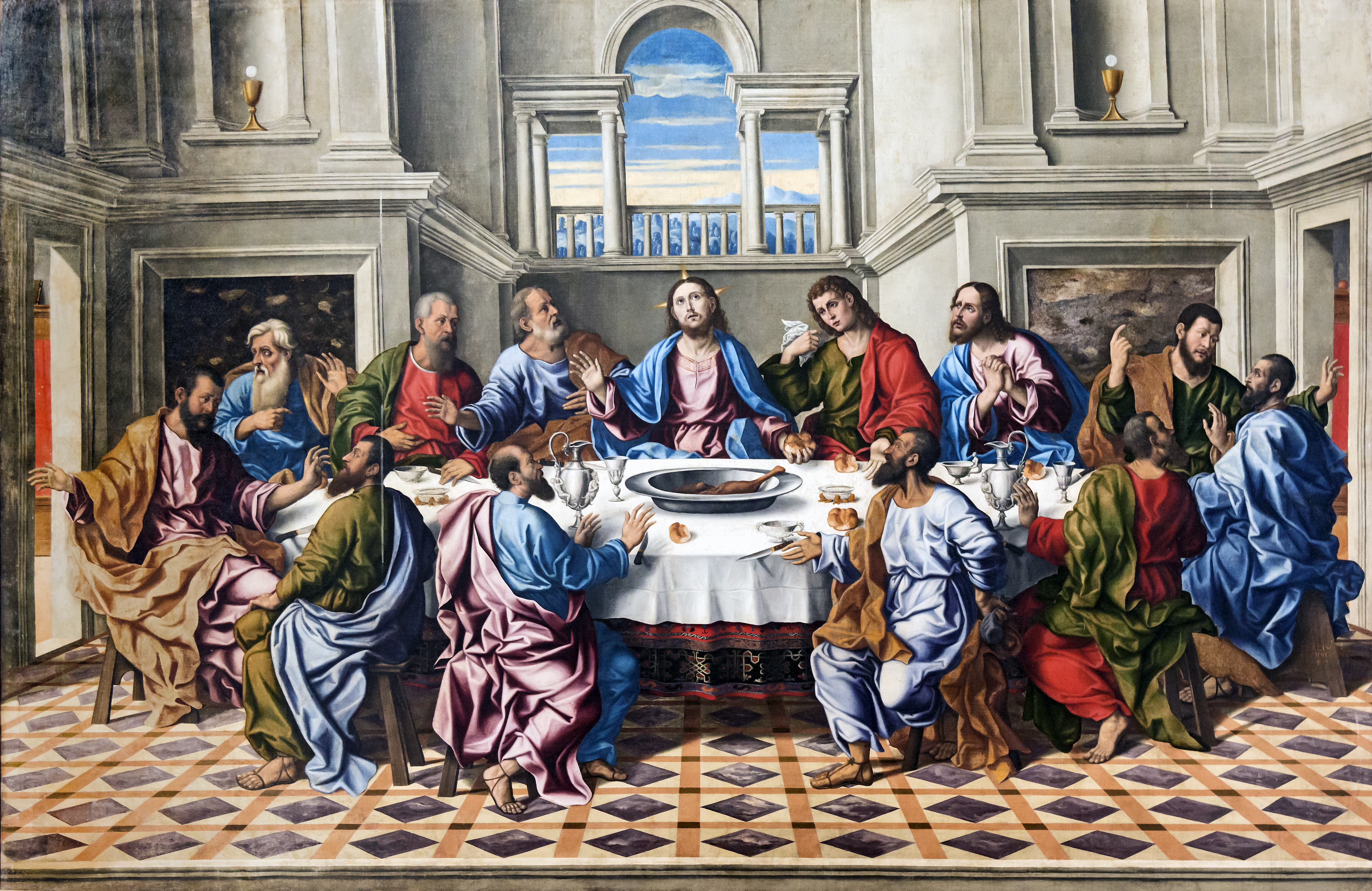 Cappella Bragadin of San Francesco della Vigna (Venice). Painting of the right wall: The Last Supper by Francesco Rizzo da Santacroce. Oil on canvas from the church, now destroyed, of Santa Ternita.